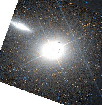 Cropped Hubble Space Telescope image of Blazar Markarian 421 with companion galaxy 421-5.